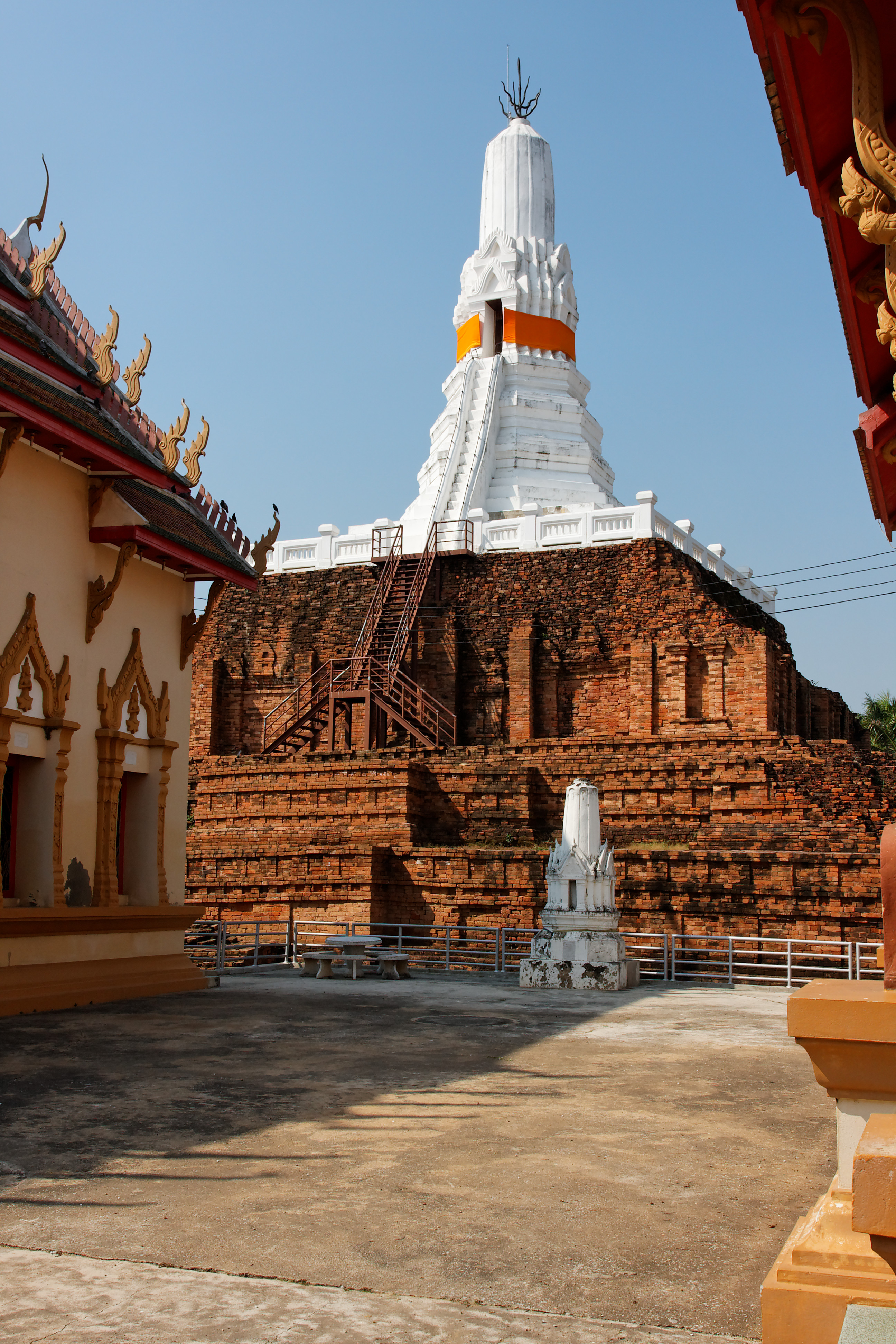 Chedi Phra Pathon is a Dvaravati temple in Nakhon Pathom, Thailand